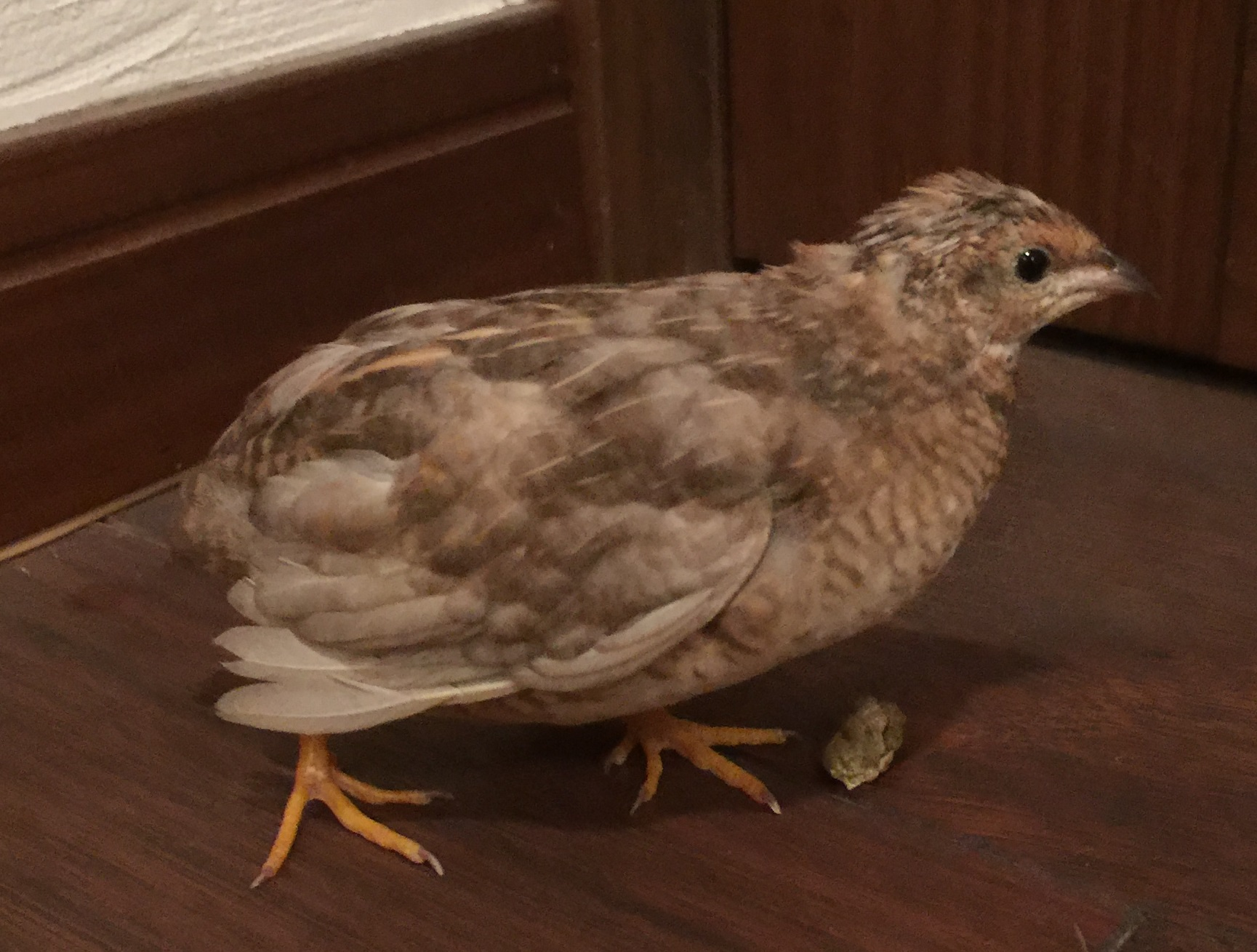 King quail